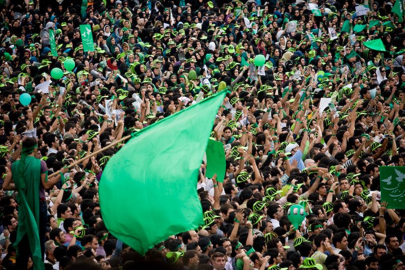 Mousavi campaign rally in Tehran